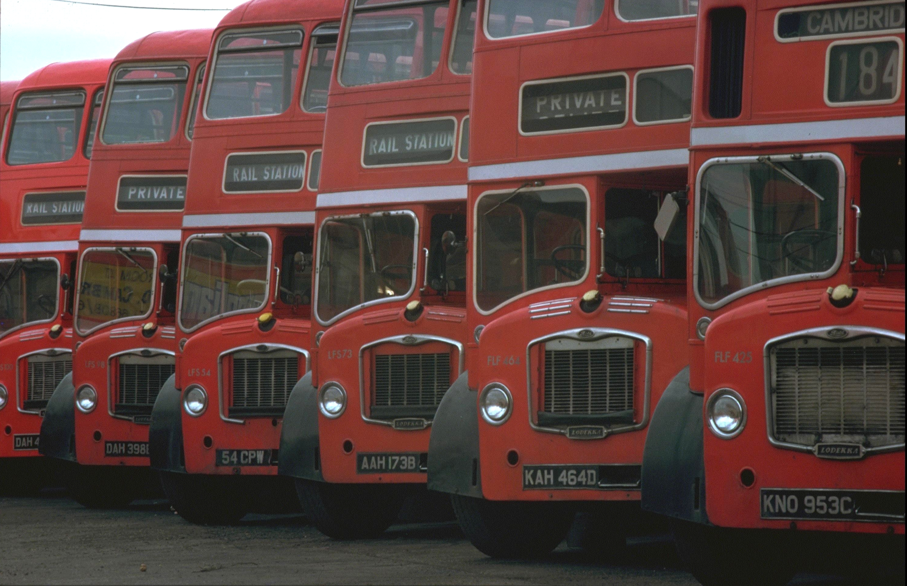 A line up Bristol Lodekkas owned by Eastern Counties, seen in Cambridge, UK in 1977.